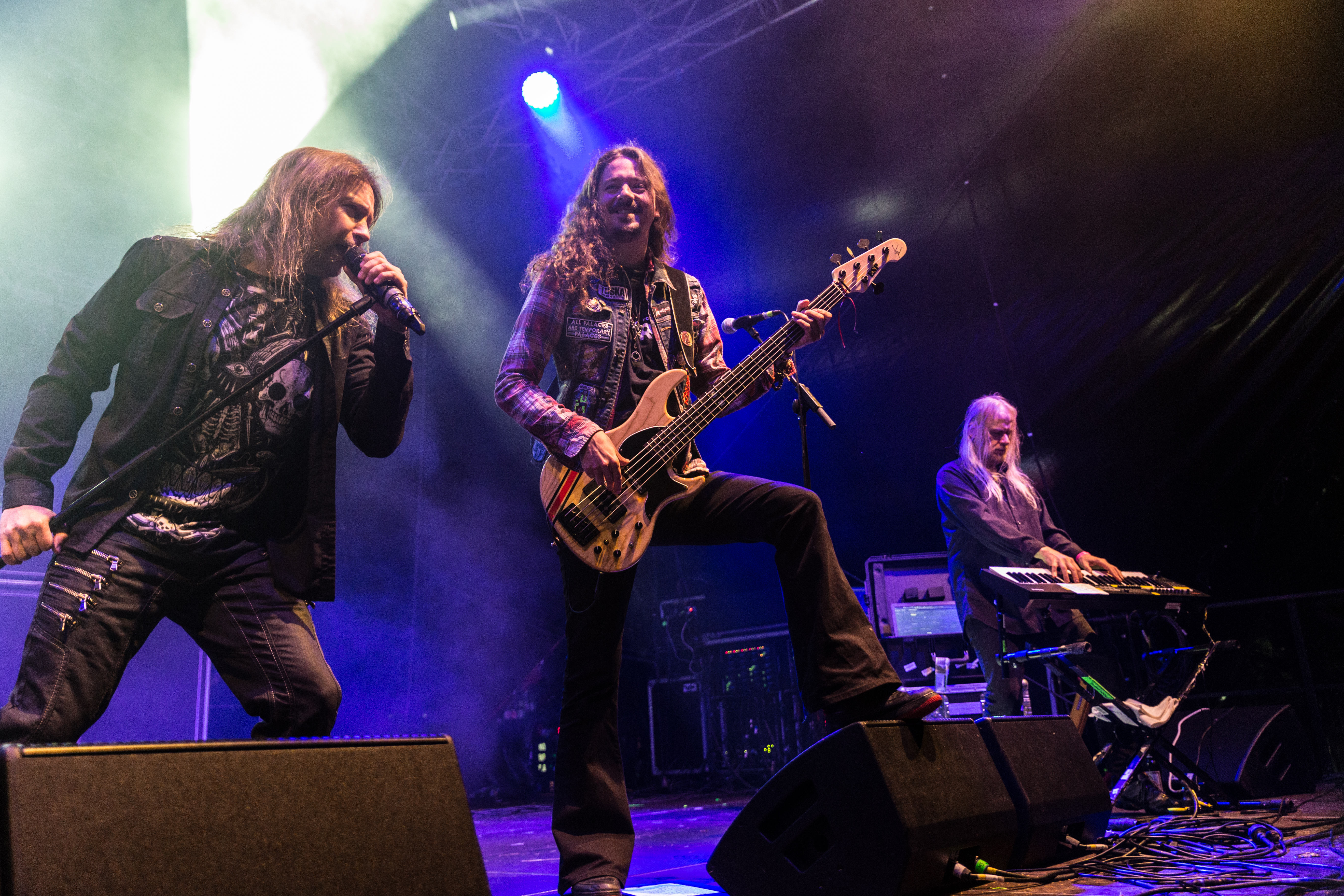 The Finnish power metal band Stratovarius at the Metal Frenzy 2017 in Gardelegen/Germany.